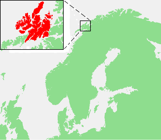 Island of Norway - Vesteralen overview.PNG